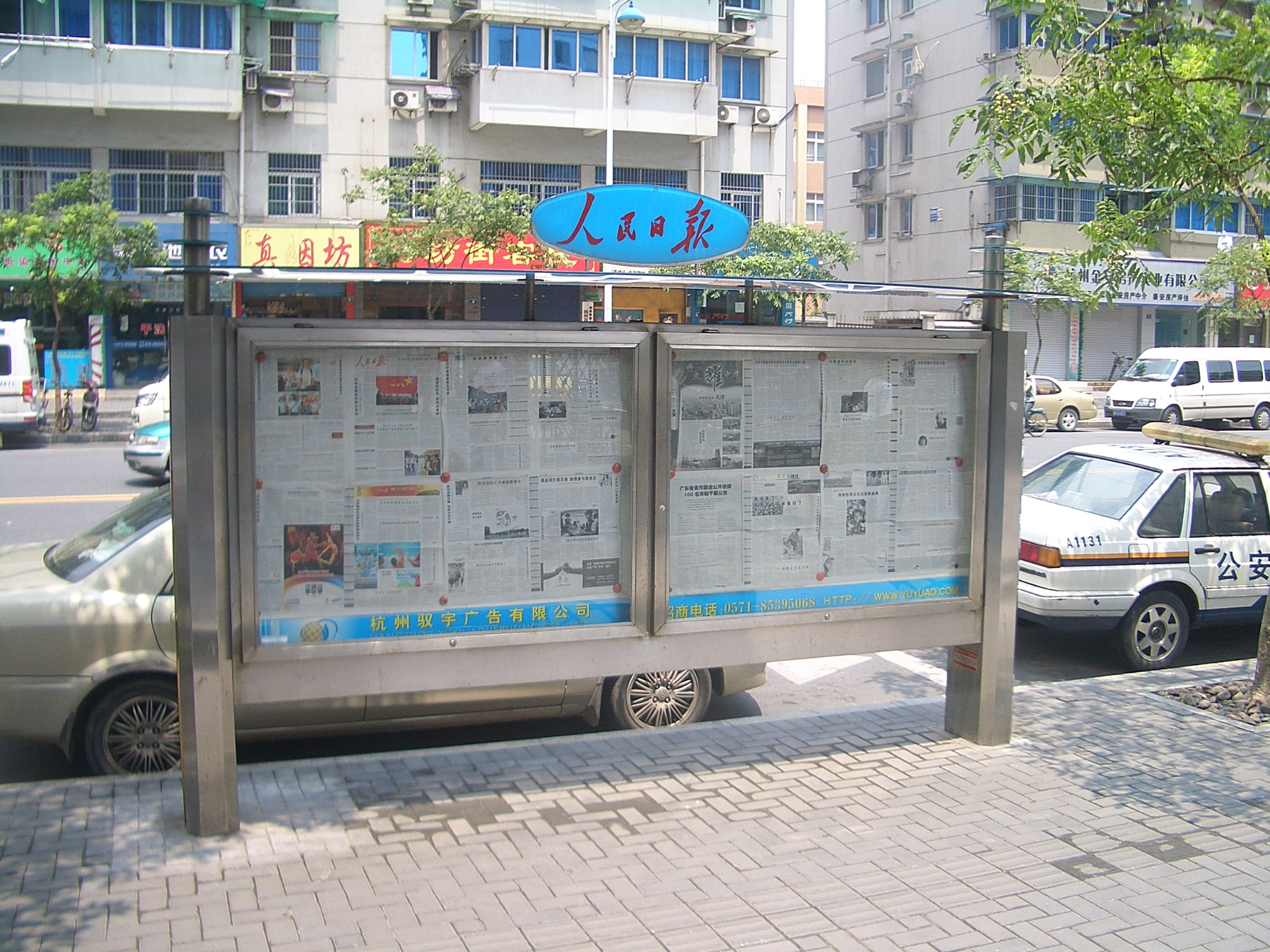 A newspaper display board, with a fresh issue of "Renmin Ribao", on a street in downtown Hangzhou